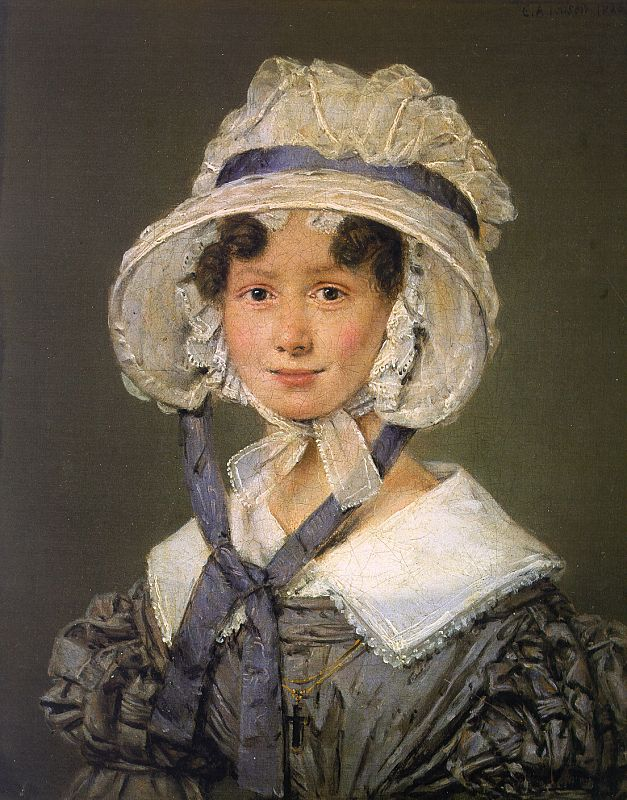 Portrait of a Woman